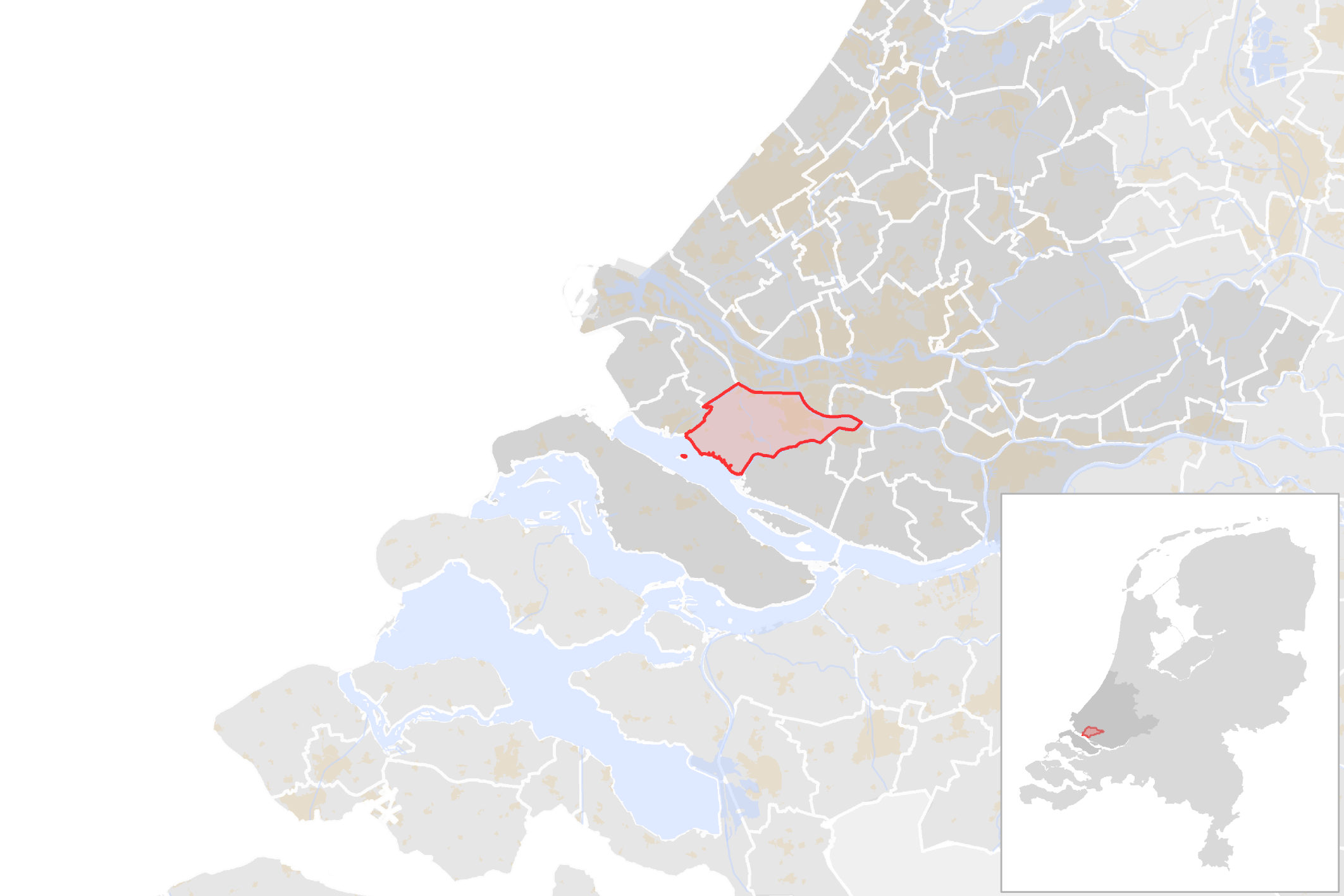 Locator map showing municipality boundary of one of the 390 Dutch municipalities (as of 2016)